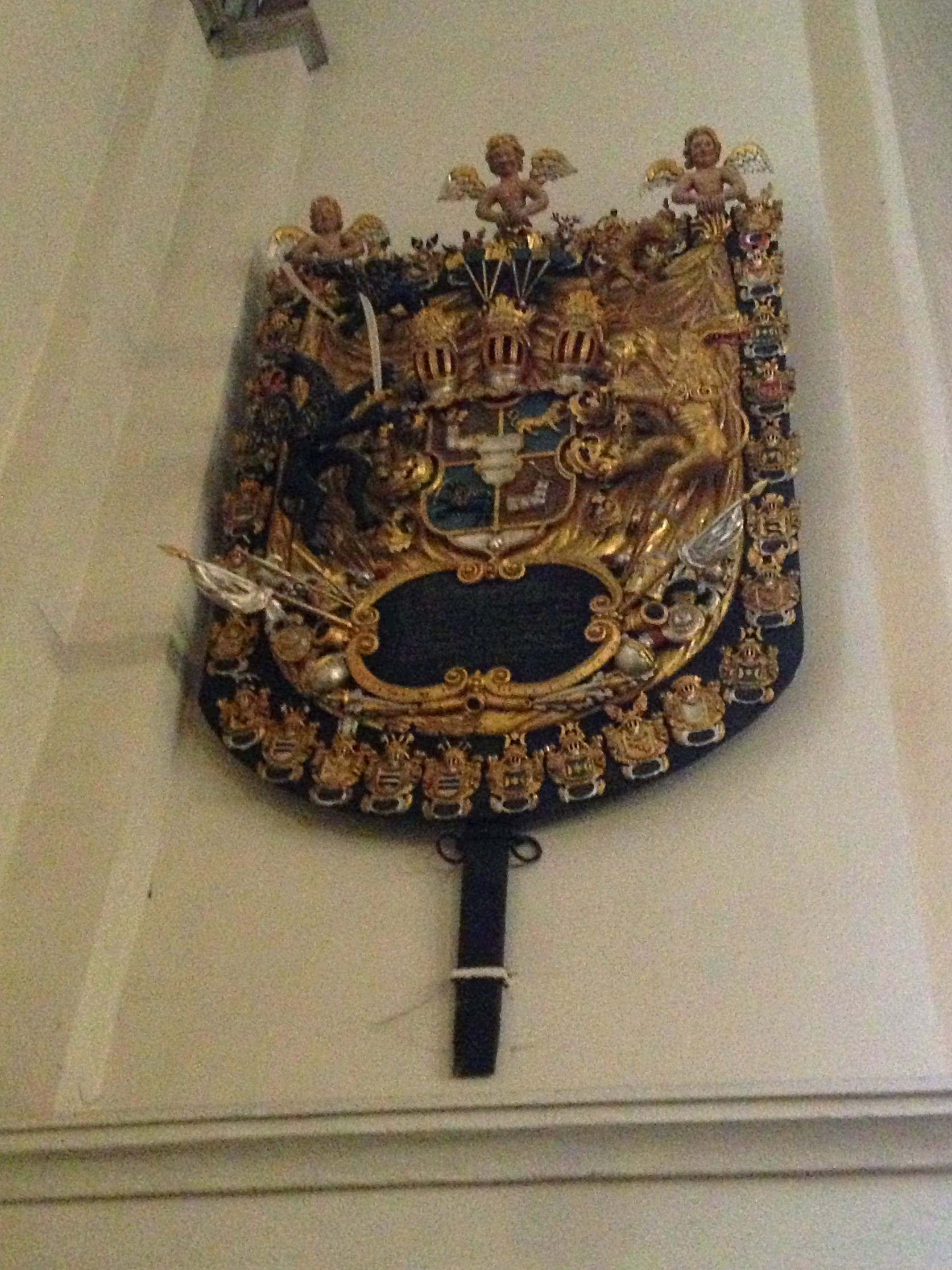 Epitaph of Gustav von Mengden (1627-1688) in Riga Dome Cathedral.